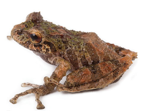 Pristimantis llanganati sp. n., QCAZ 46227, adult male, SVL = 24.0 mm